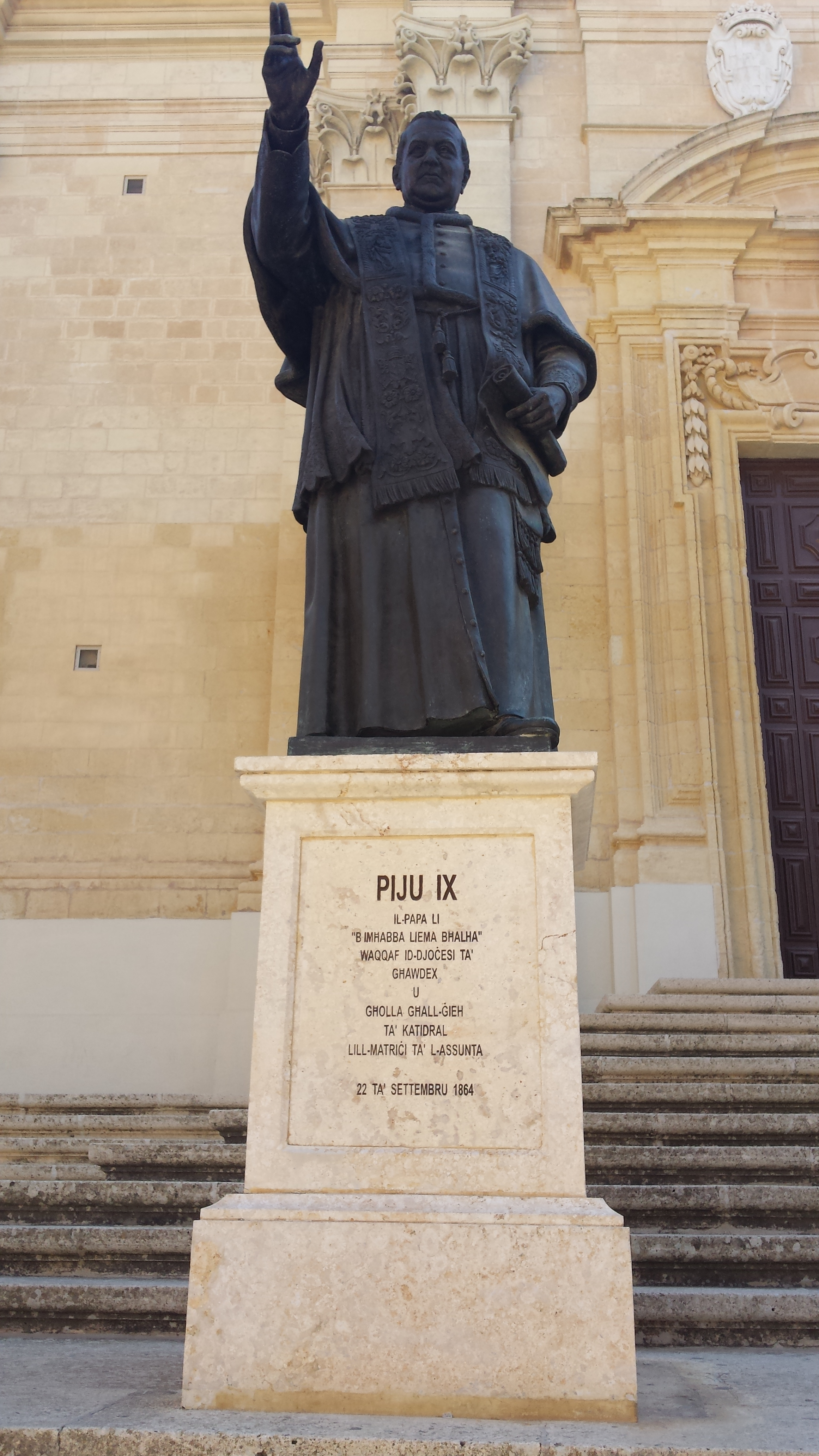 The Pope Pius IX monument in Cittadella, Victoria, Gozo